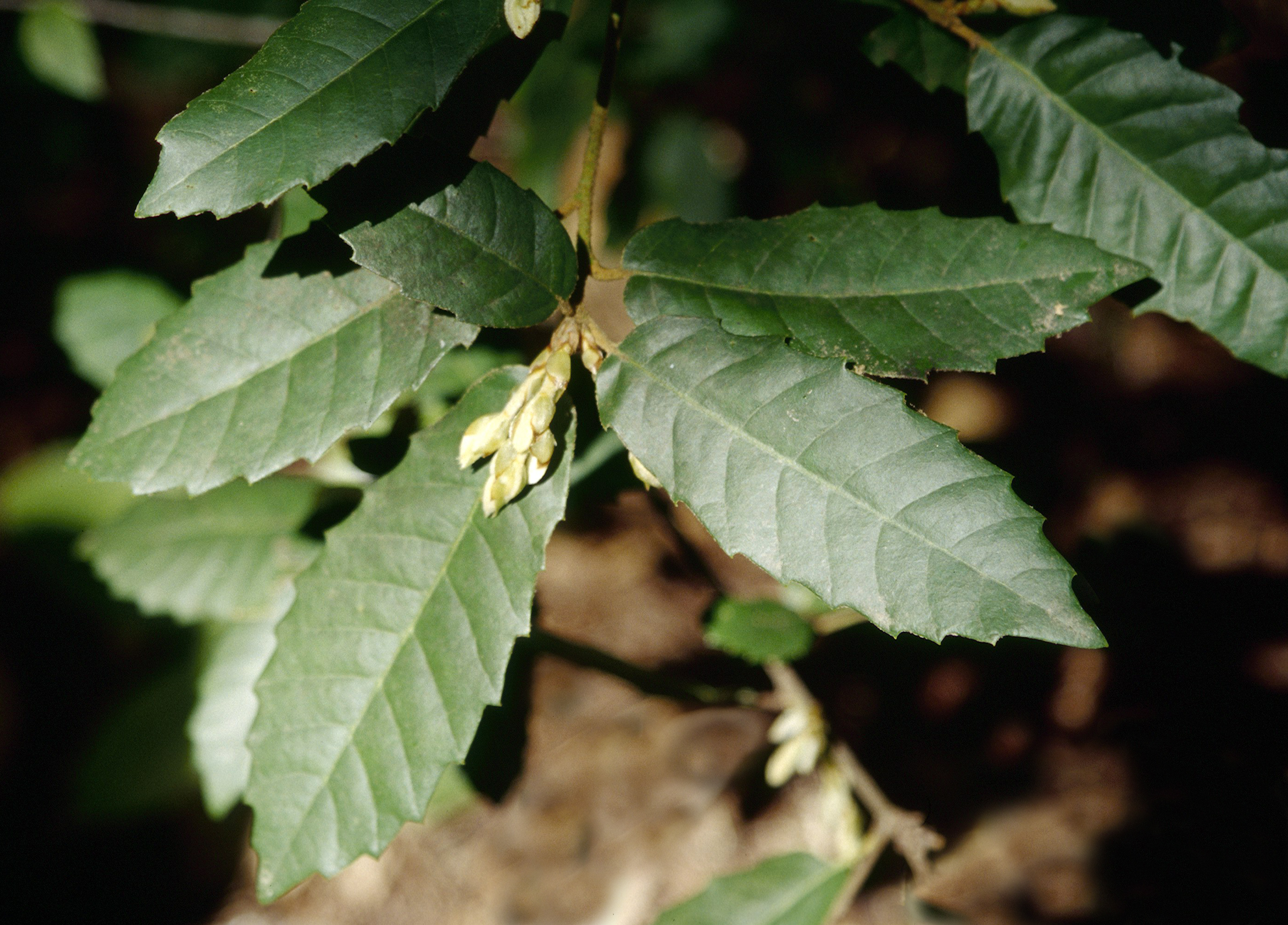 Notholithocarpus densiflorus leaves